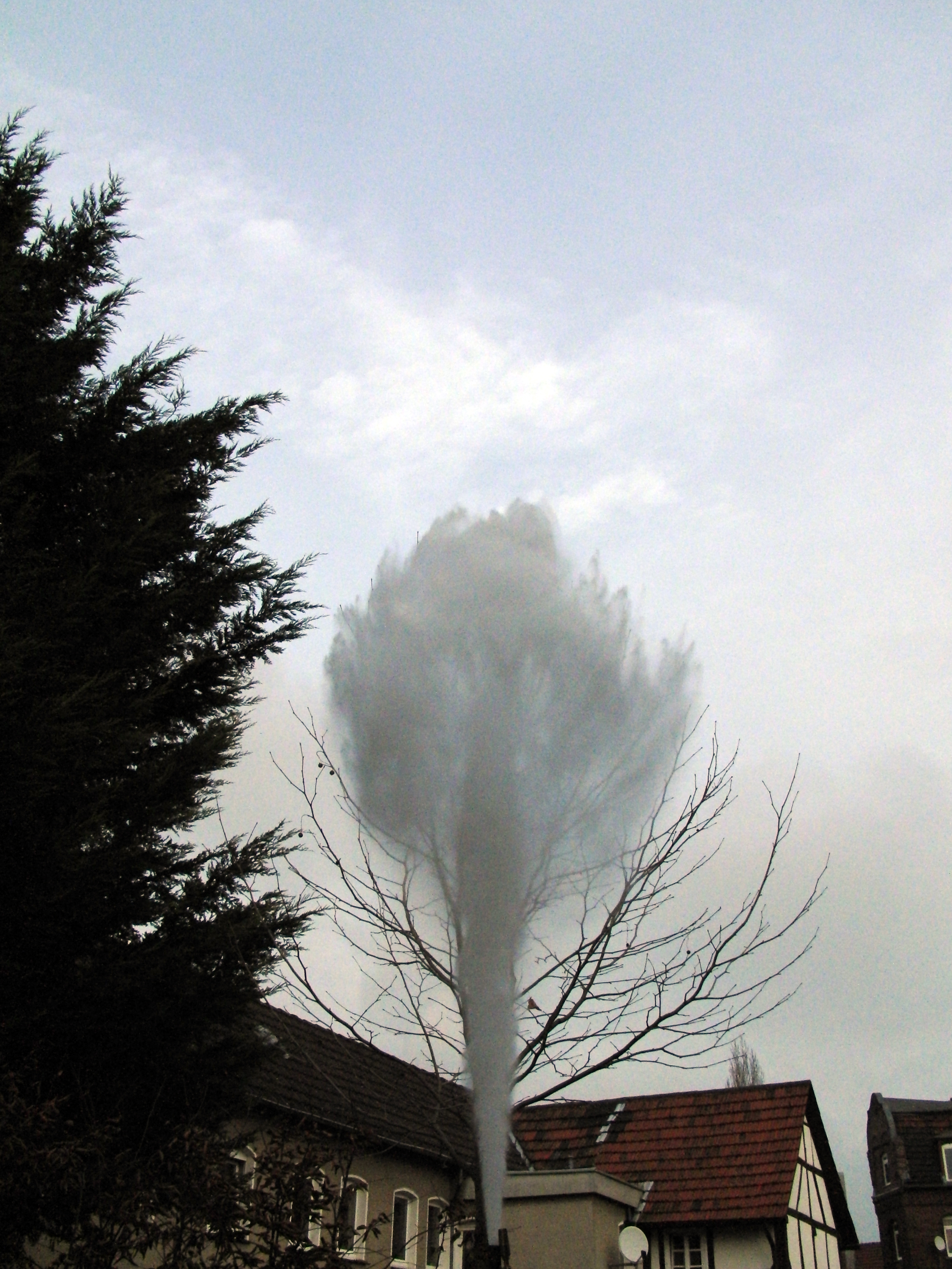 1" Pyranoscope in atomization phase